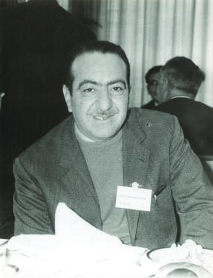 Guido Stampacchia, Italian mathematician, in Tokyo.